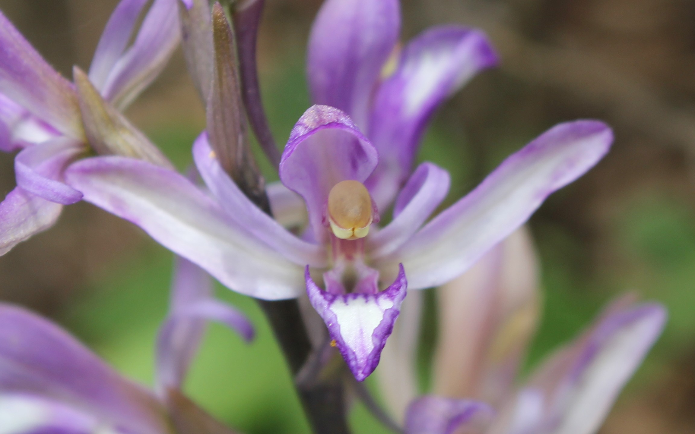 Limodorum abortivum labellum